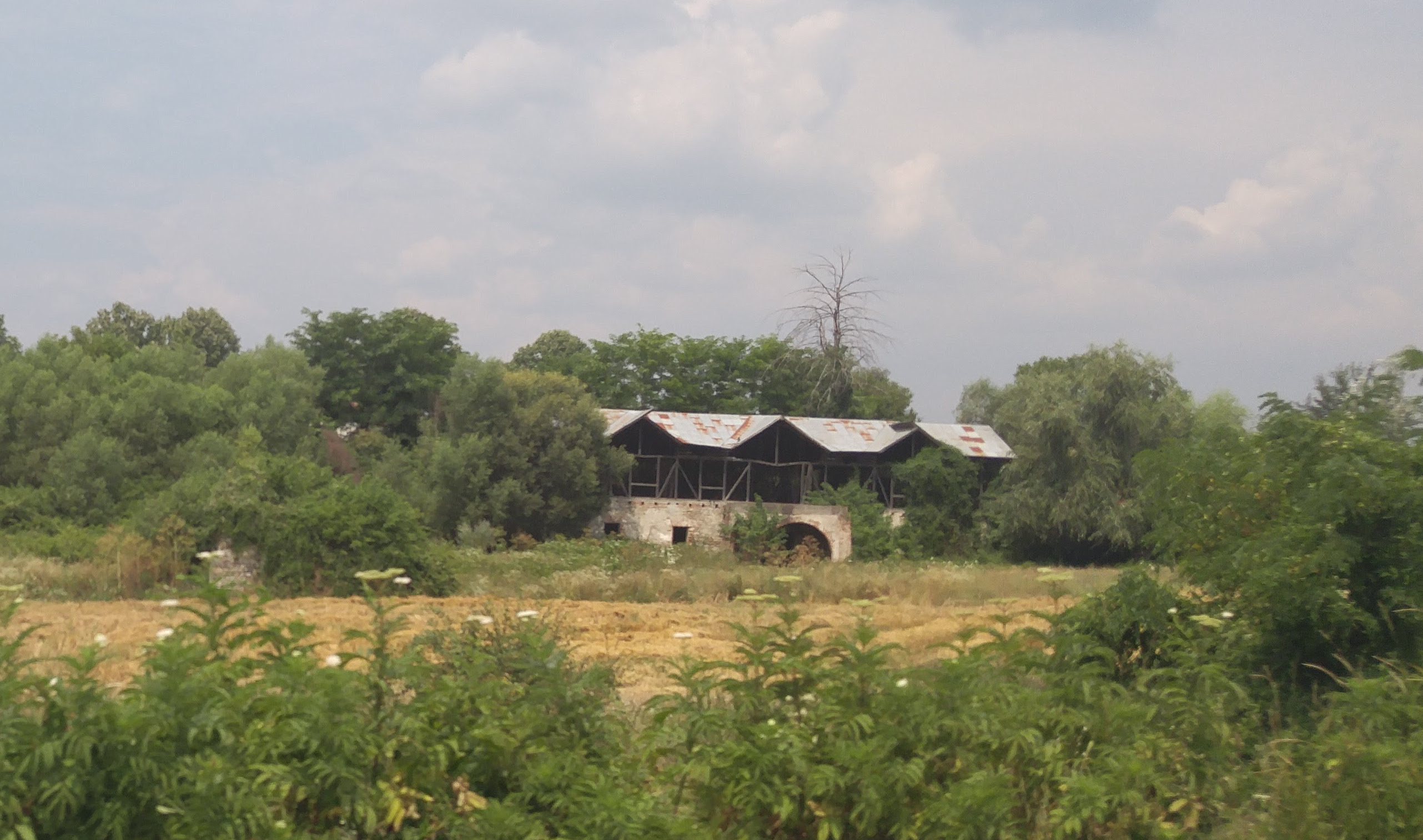 Ruins of the "Red Inn" in Făgetu, Gura Vitioarei commune, Prahova County, Romania